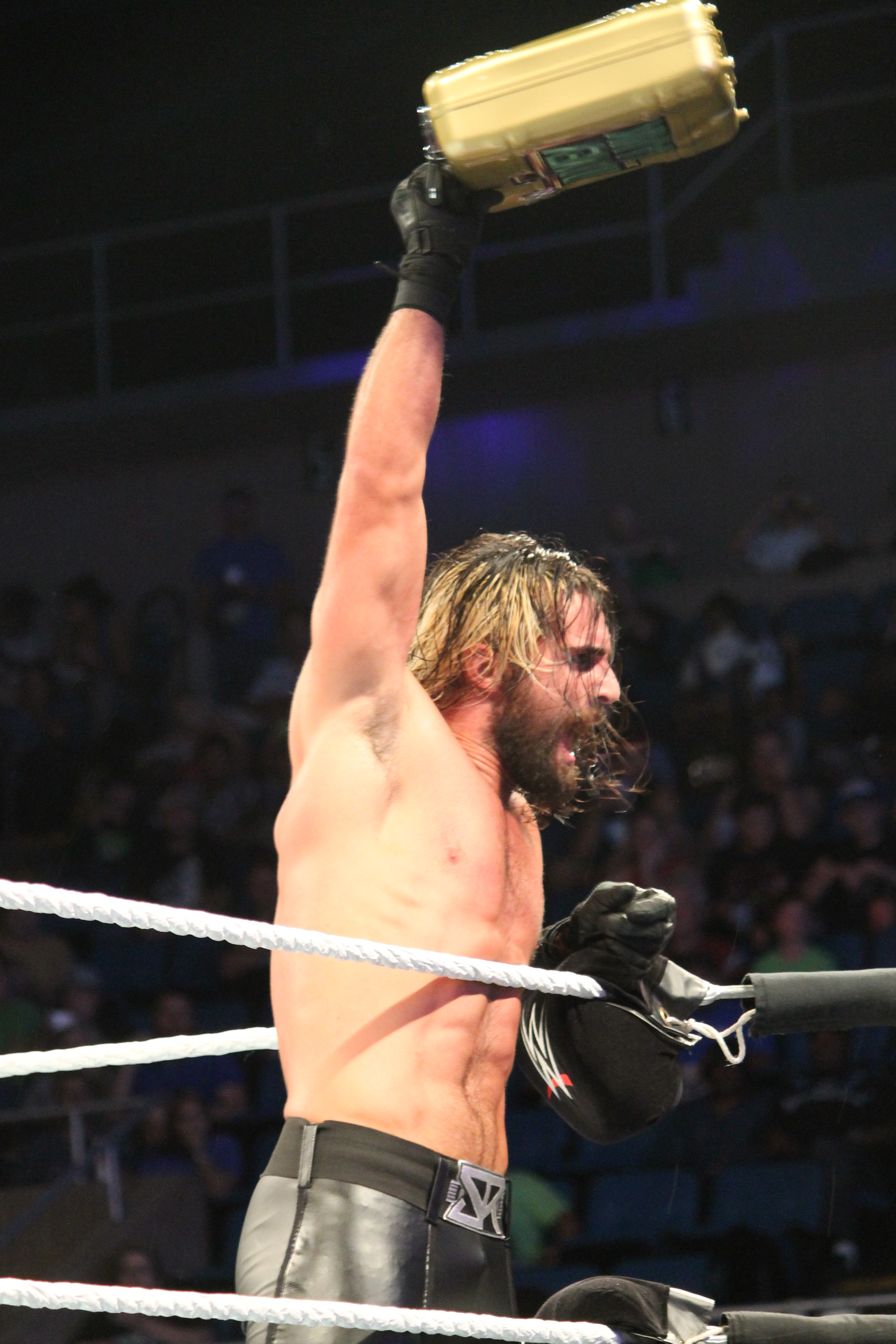 Seth Rollins as Mr. Money in the Bank at a SmackDown / Main Event taping on September 16, 2014.